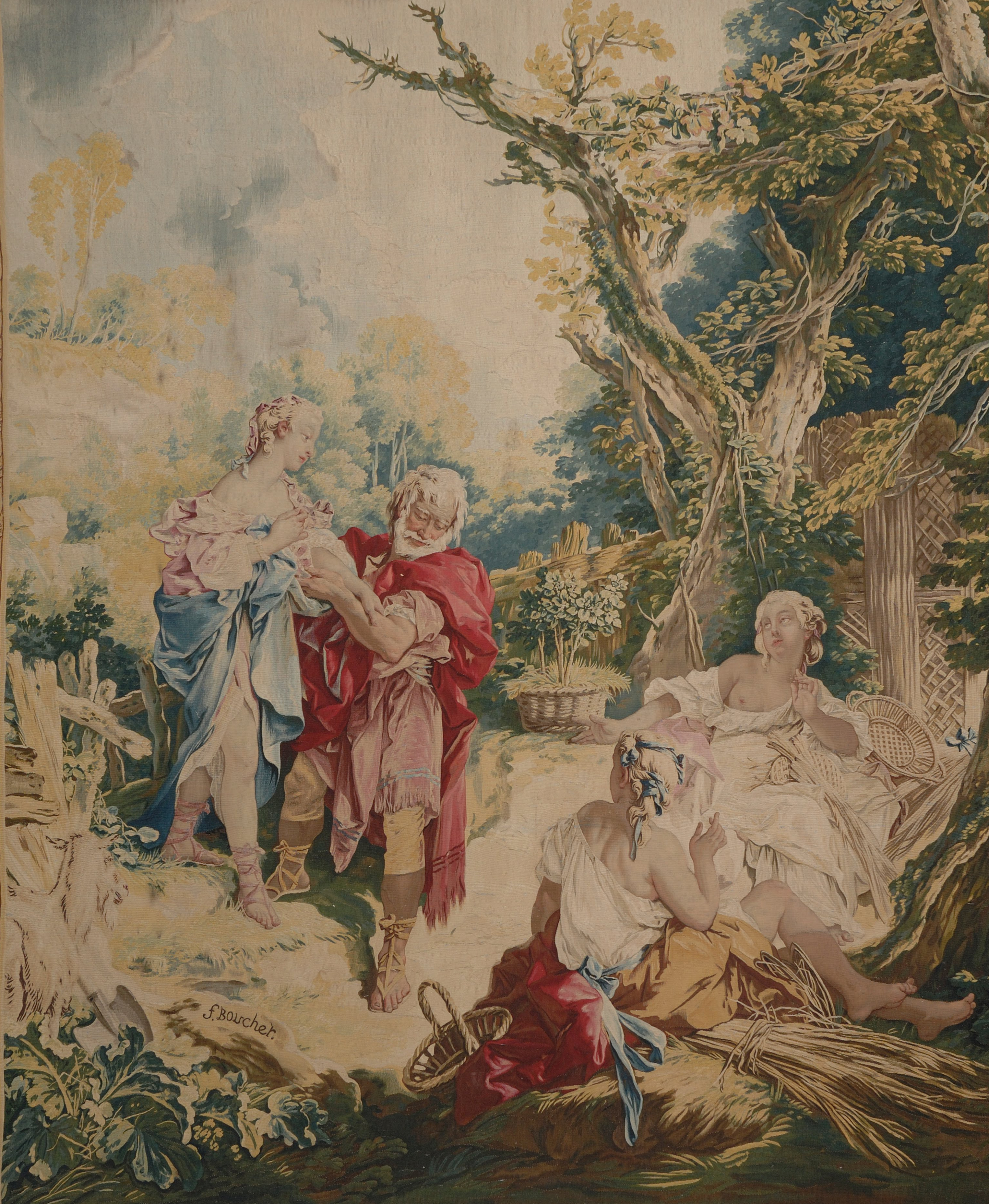 From a set of five tapestries called "The Story of Psyche"